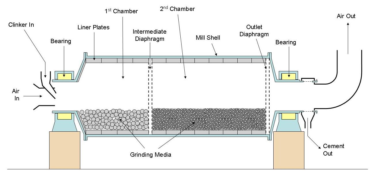 Diagram of ball mill used to grind clinker in cement manufcture